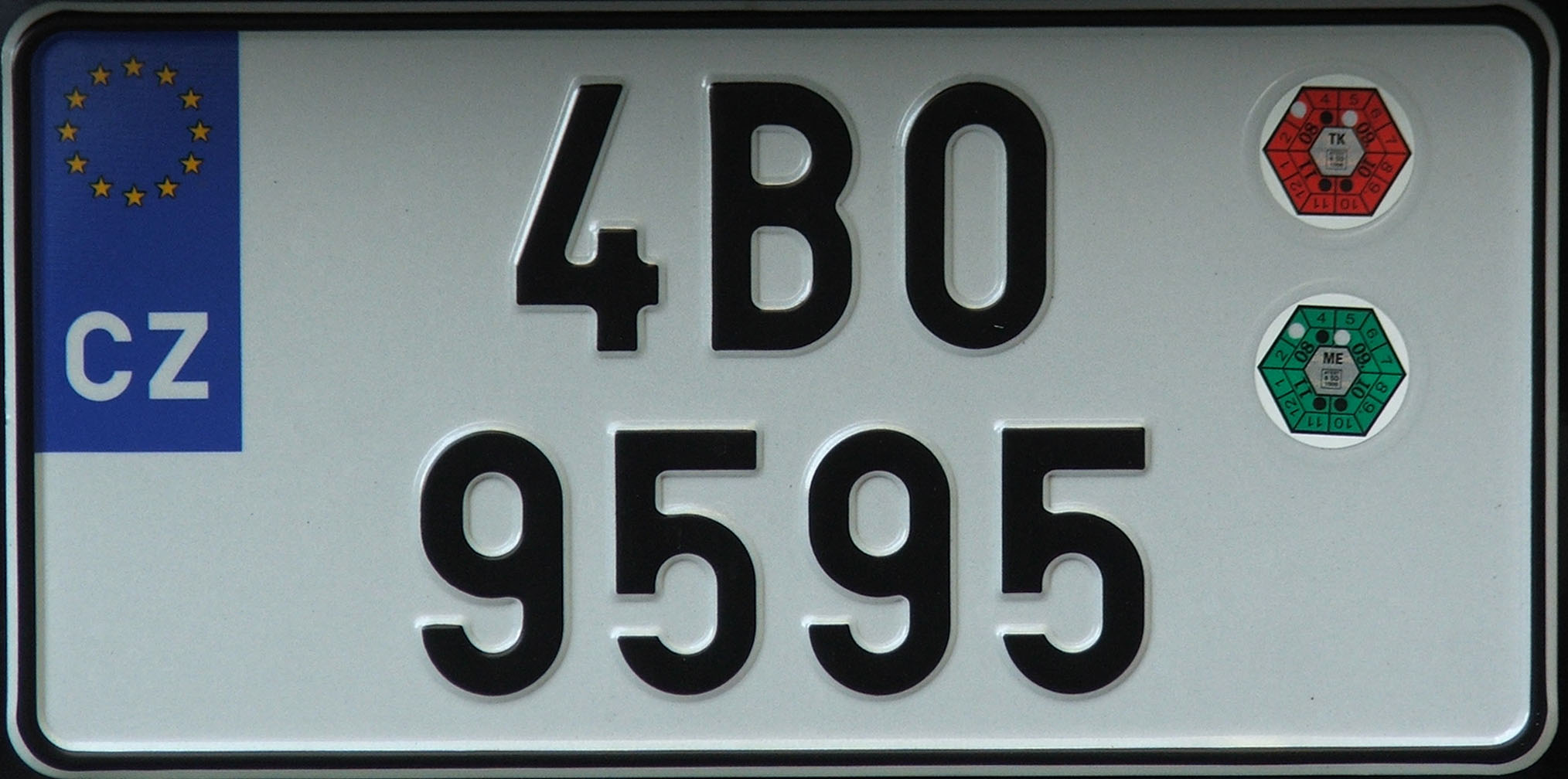 Vehicle registration plate from Czechia after 2004 - with EU symbols, "american" size of plate. "B" stands for South Moravian region.